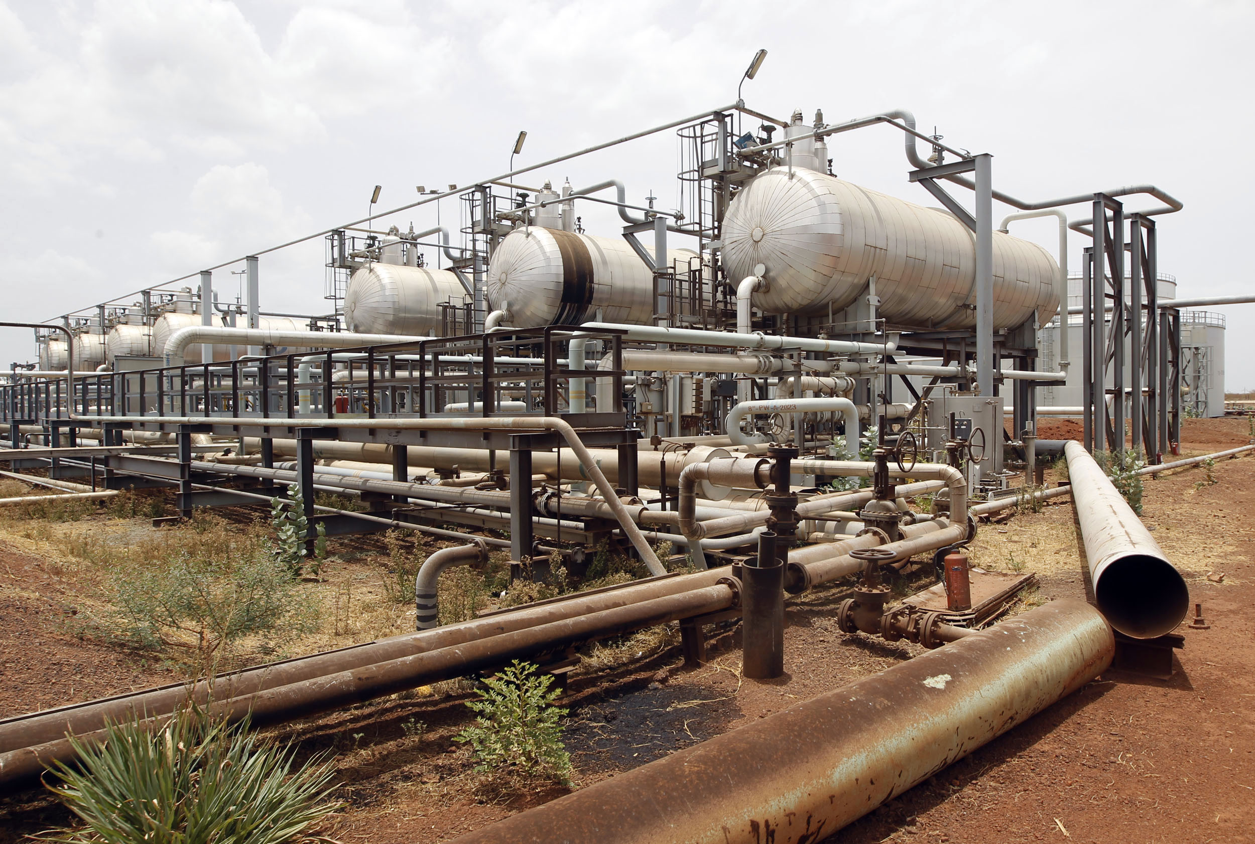 Oil processing facility in Unity State, South Sudan (formerly Sudan), 2012